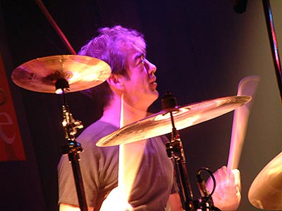 Bill Berry performing with R.E.M. in 2008